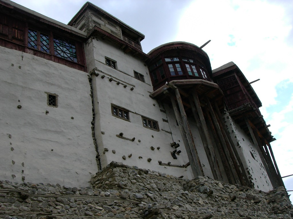 Overview of the Hunza valley, Pakistan. Photo by Joonas Lyytinen